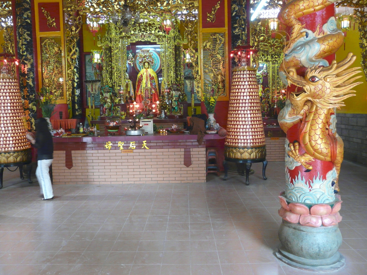 This is the main altar in Quan Am Pagoda, Cho Lon, Ho Chi Minh City, Vietnam. The altar is dedicated to Thien Hau, who is also known as Mazu, the Lady of the Sea.